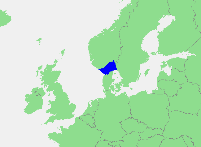 Location map of Skagerrak — a strait/bay of the North Sea.